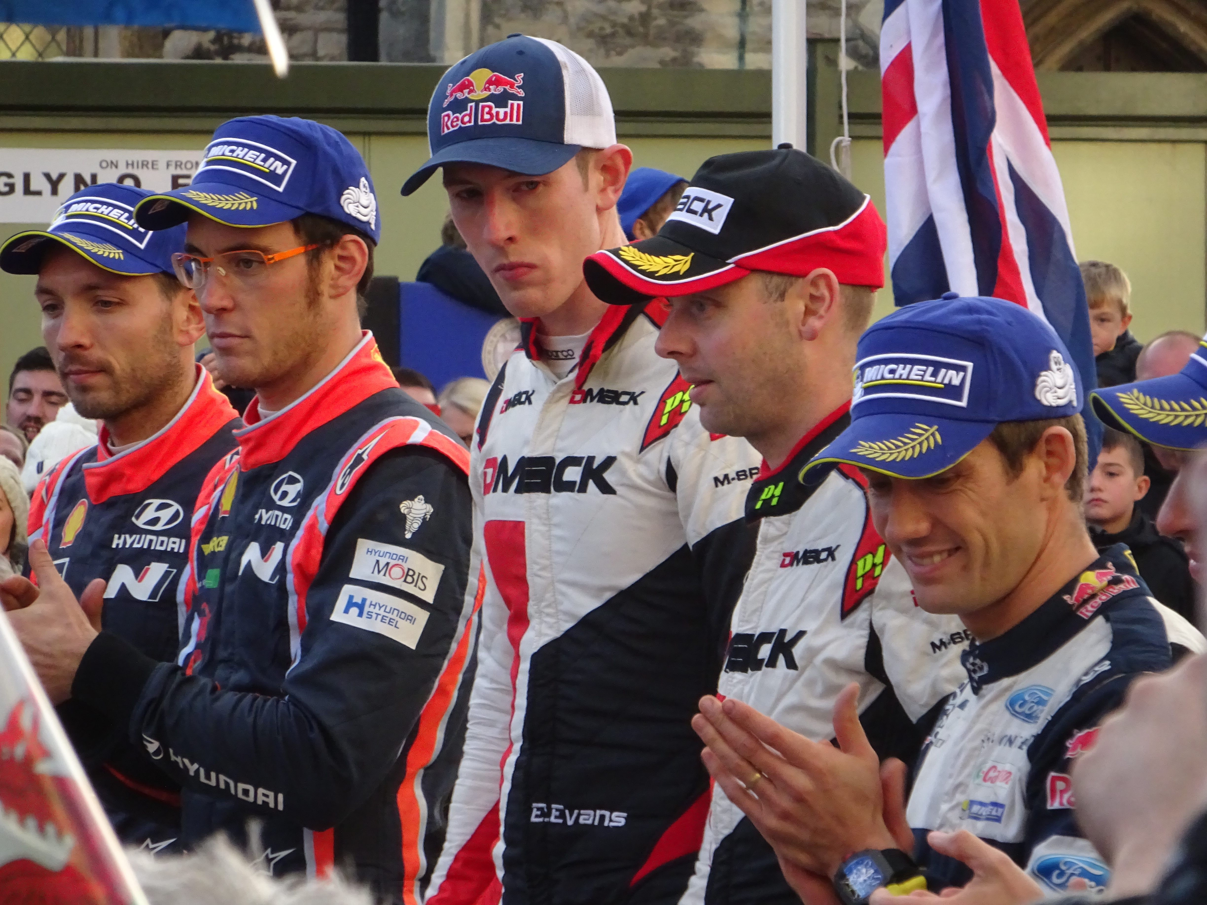 Welshman Elfyn Evans and co-driver Daniel Barritt, and runners up at the Awards ceremony. Winner of the Wales Rally GB - penultimate round of the globe-trotting World Rally Championship; Llandudno, Wales, 29 October 2017.